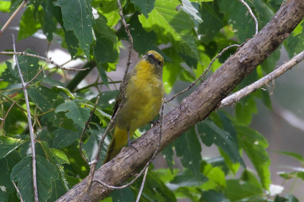 Hepatic Tanager ( female) | Hunter Canyon | Huachuca Mtns | Sierra Vista | AZ | 2015-09-03at10-34-472